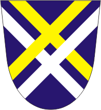 Coat of arms of Vihula vald, Estonia